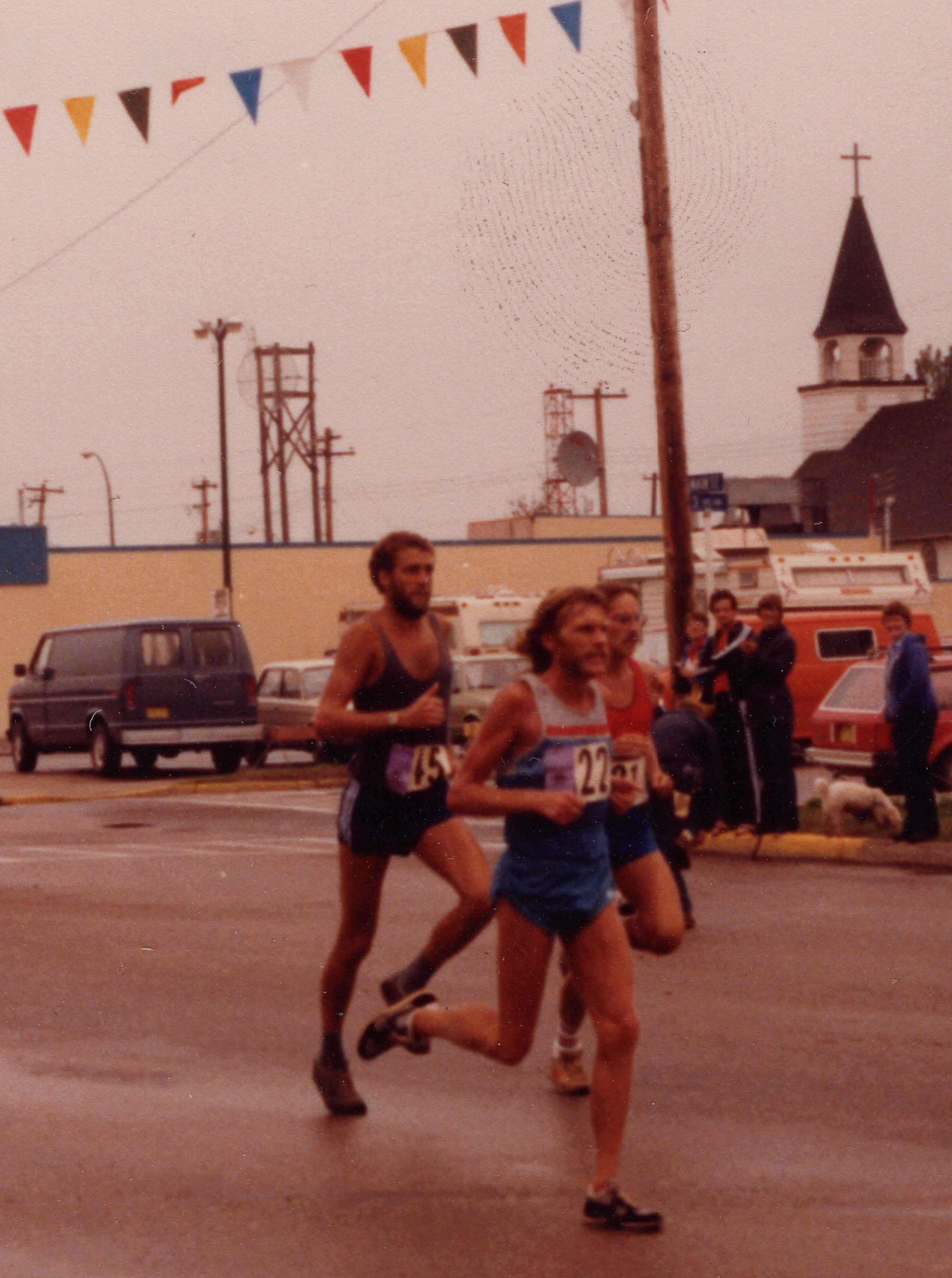 Ultrarunner, Al Howie, wins his first marathon in 1982. He'd run from Calgary just to enter. Won the race, then ran back. Tim O'Donovan in the rear.